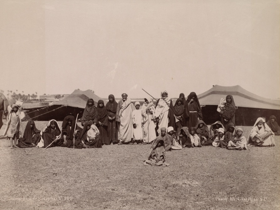 BPLDC no.: 08_04_000202 Page Title: Encampment of Beduins. Collection: William Vaughn Tupper Scrapbook Collection Album: On the Nile. Cairo to Luxor. Call no.: 4098B.104 v31 (p.18) Creator: Tupper, William Vaughn Photographer: G. Lékégian & Cie. Genre: Scrapbooks; Albumen prints Extent: 1 photographic print mounted on page : albumen ; page 33 x 39 cm. Description: Scrapbook page consists of one photograph of Beduin people and there encampment. The annotations included on this page describe the lifestyle of the Beduin people of Egypt. Transcription: The Bedouins- the Bedawi-Bedu- consisting of various tribes quite dissimilar are Nomadic Arabs very unlike the fellahin and the Arabs of the Towns. The Beduins of the north have inherited the fiery blood of the desert tribes who achieved such exploits under the banner of the prophet. it is indifferent to a Beduin where he pitches his tent, provided the pasturage is good and a spring nearby- It is only a shelter from the sun and chilling night. He is very poor, flocks of goats, and camels are his only possesion- He is a lax Mussulman, not praying five times each day and knowing little of the Koran. Relics of the old star worship is found amounsgst them, Notes: Page description supplied by cataloger, derived from captions and/or annotated information. ; Caption on image: Campemed de Beduins No. 322. BPL Department: Print Department Rights: No known restrictions.